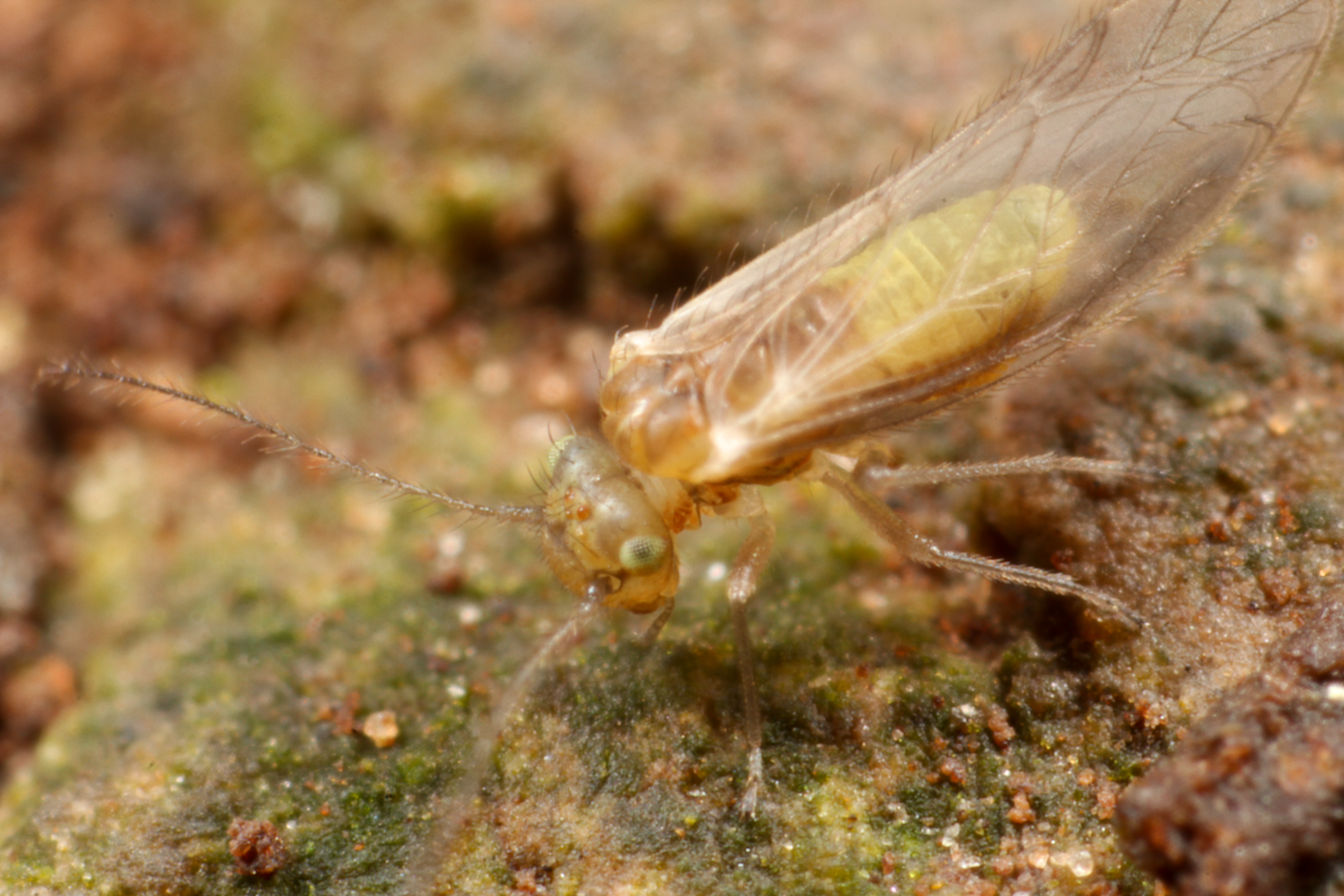 Possibly Trichopsocus brincki. Original description on Flickr: Found a load of these and their nymphs beneath a yew tree yesterday, between the showers of rain. They're really quite pretty. I might pop out tomorrow and get some better pix...